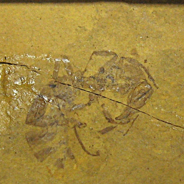 Myrmeciites "incertae sedis" specimen from the Ypresian age Klondike Mountain Formation near Republic, Washington, USA Specimen is estimated at 1.5cm long